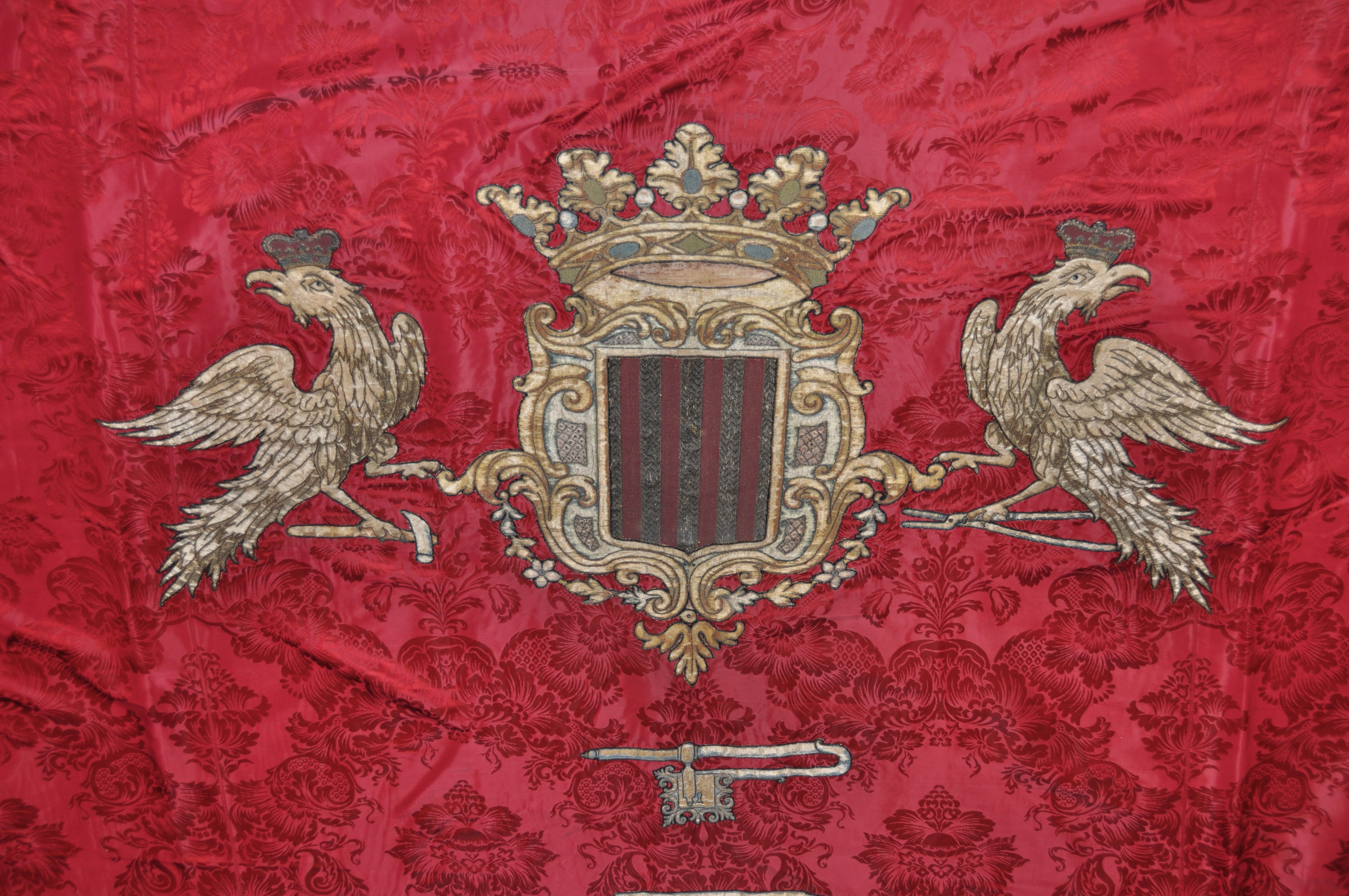 Coat of arms of Catalonia hold by a couple of crowned eagles. Detail of the flag of the Barcelona locksmiths and blacksmiths guild. 1782. MUHBA